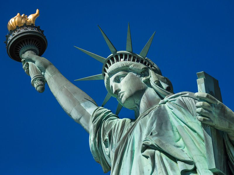 photo of statue liberty